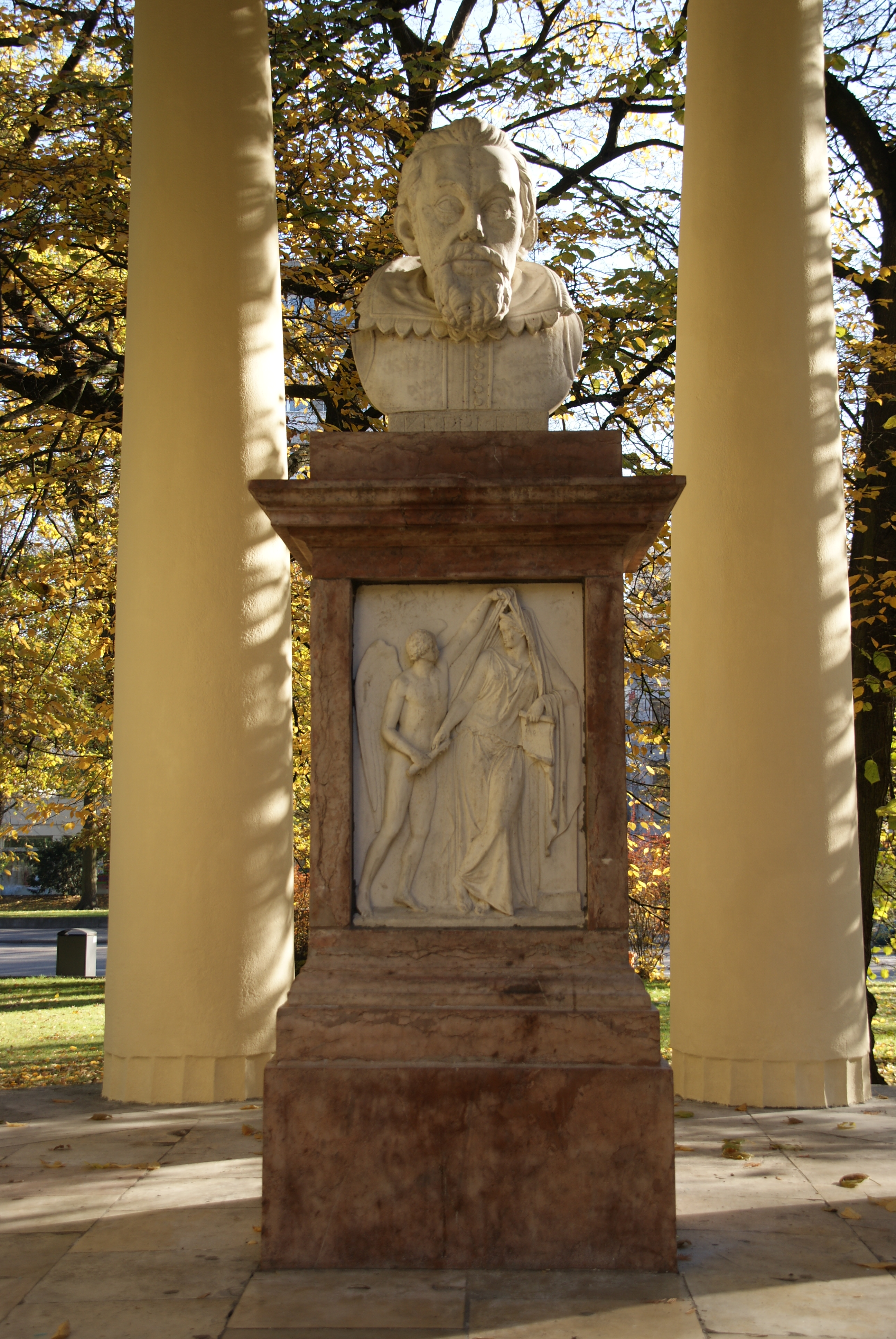 Bust of Johannes Kepler by Friedrich Döll. It is placed within the Kepler memorial that was erected by Emanuel d'Herigoyen at the Fürst-Anselm Allee in Regensburg, near Kepler's burial.